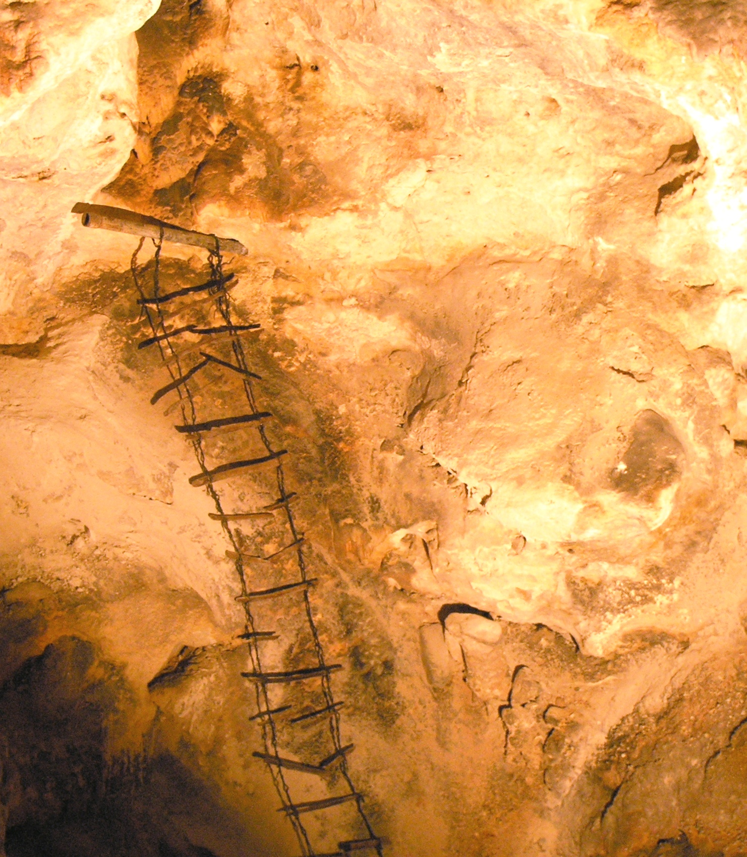 Carlsbad Caverns National Park